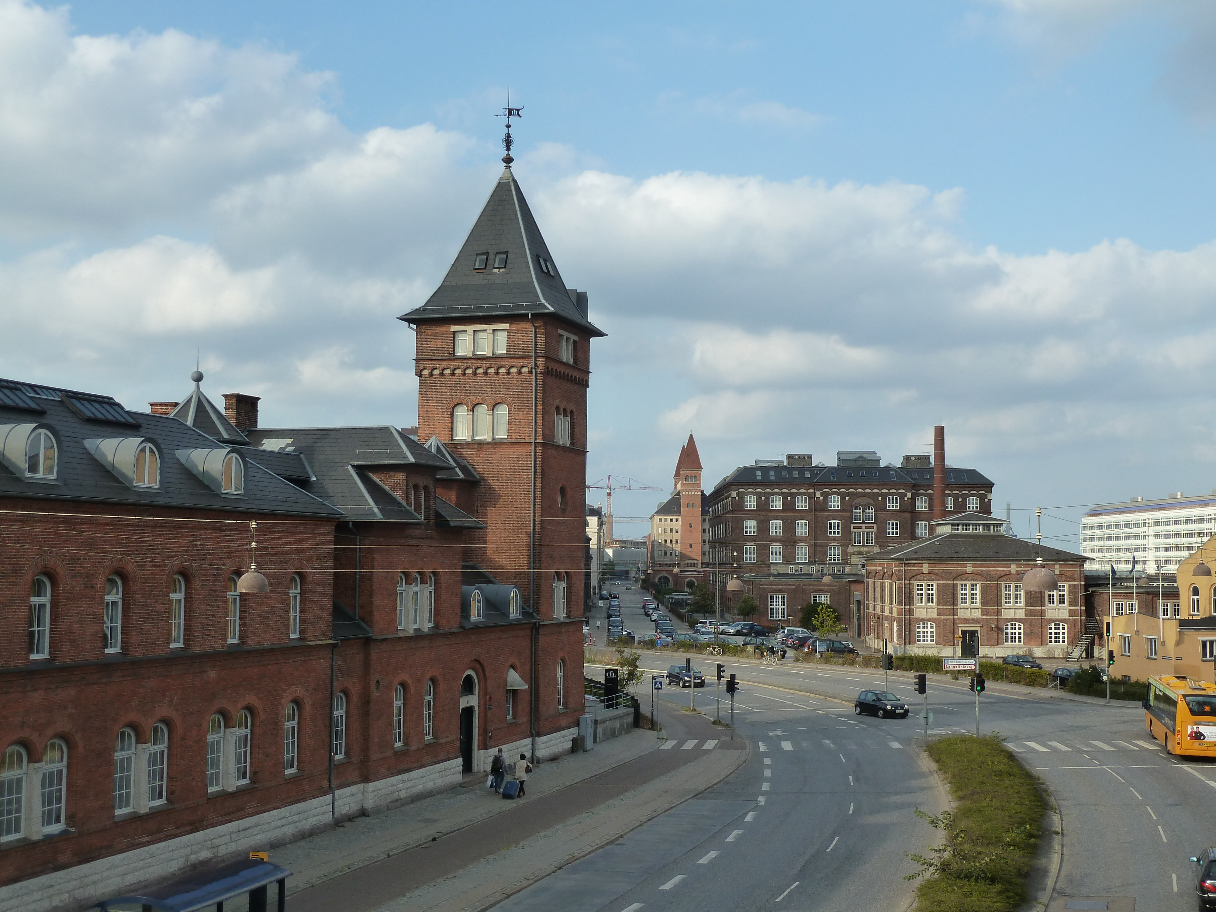 A view down Dampfærgevej with Regionernes Hus (Silopakhuset) from Toldboden (left) in the Søndre Frihavn area of Copenhagen, Denmark